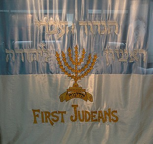 Flag of the First Judeans; taken by me; creative commons licensed